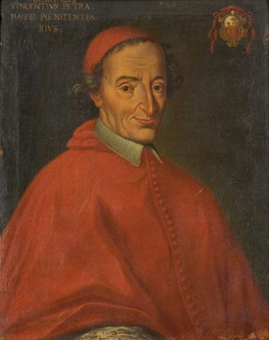 Portrait of Vincenzo Petra (1662-1747), cardinal of the Roman Catholic Church